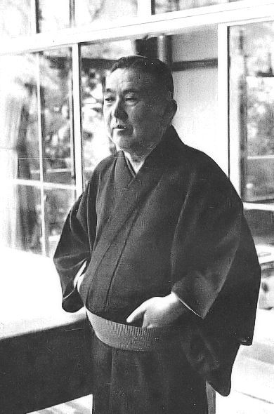 Ichiro Kono